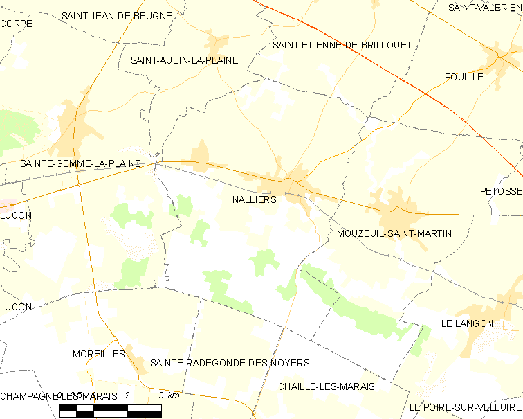 Map of French municipality Nalliers